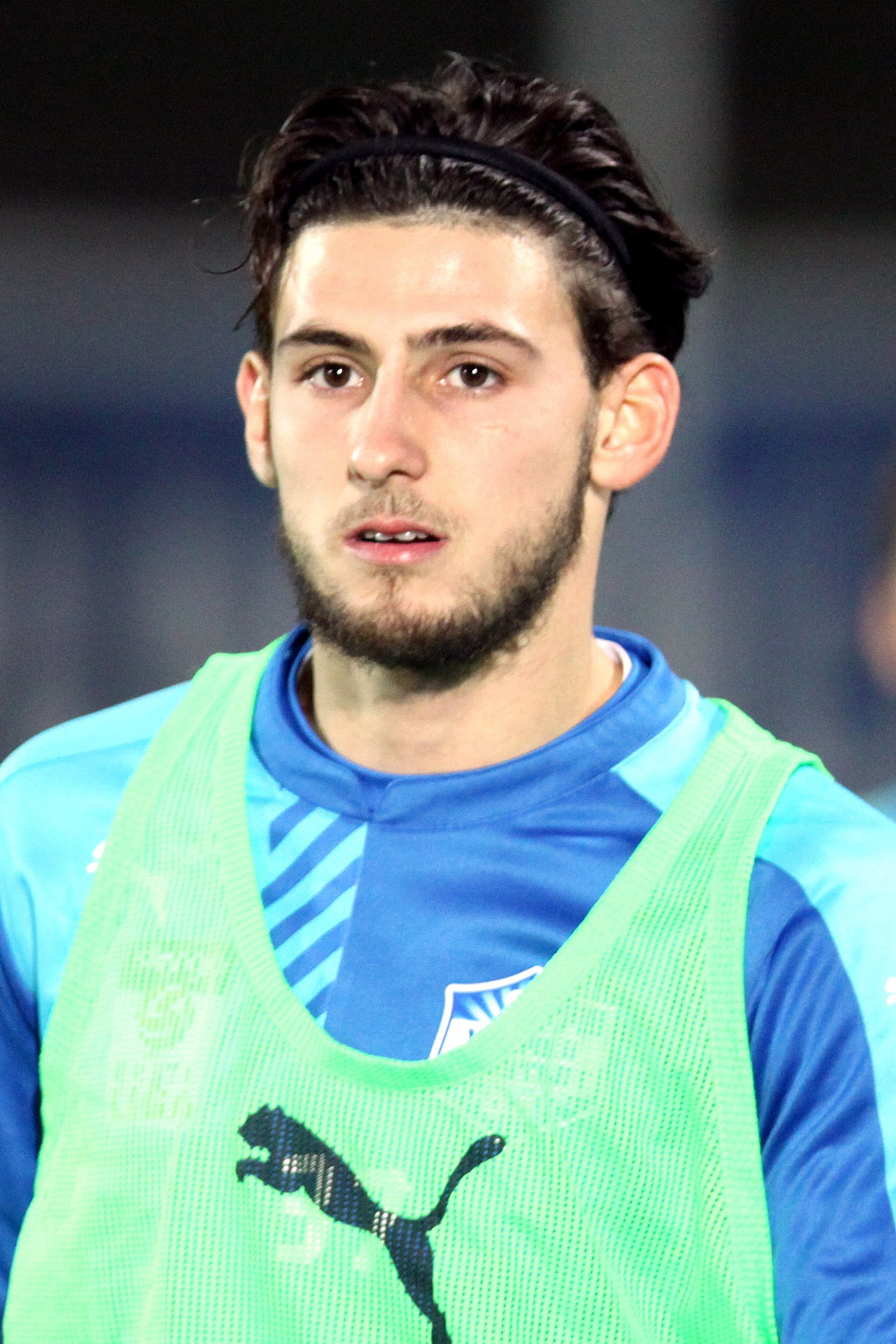 Match of the Erste Liga – SC Wiener Neustadt (blue/white shirts) vs. SK Austria Klagenfurt (red/white shirts) 1–1 (0-1) on 2015-10-20 in the Stadion in Wiener Neustadt – The photo shows Danijel Klaric (SC Wiener Neustadt).